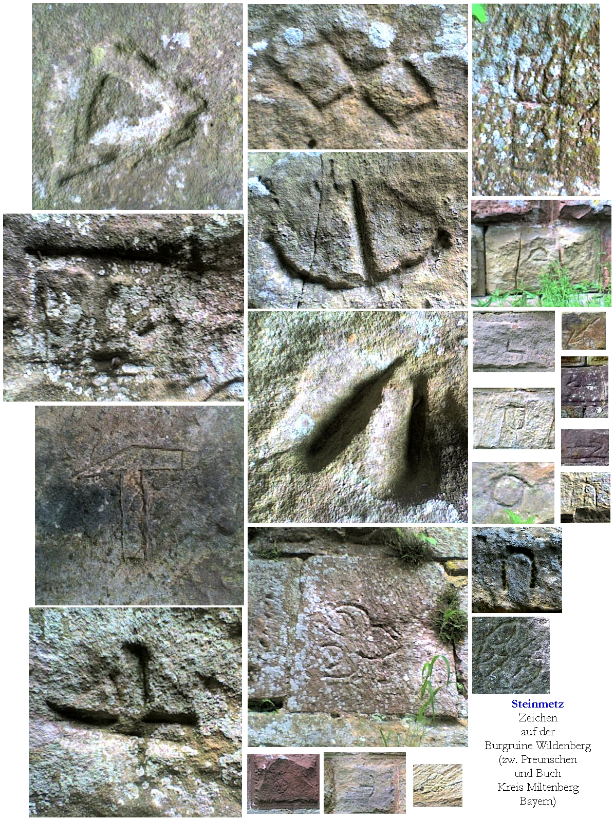 stonemasons' marks in the castle Wildenberg (Odenwald)